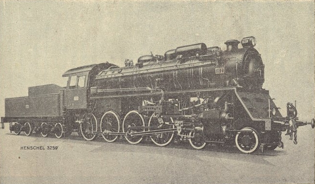 Locomotive No. 102 of the CCFPBA - Companhia dos Caminhos de Ferro Portugueses da Beira Alta (Company of the Portuguese Railways of the Beira Alta). It was later changed to the number 802, when the Beira Alta railway was taken over by the Companhia dos Caminhos de Ferro Portugueses (Portuguese Railways Company). This image was published in the Gazeta dos Caminhos de Ferro magazine No. 1127, of 1st December 1934, and scanned by the Hemeroteca Municipal de Lisboa.